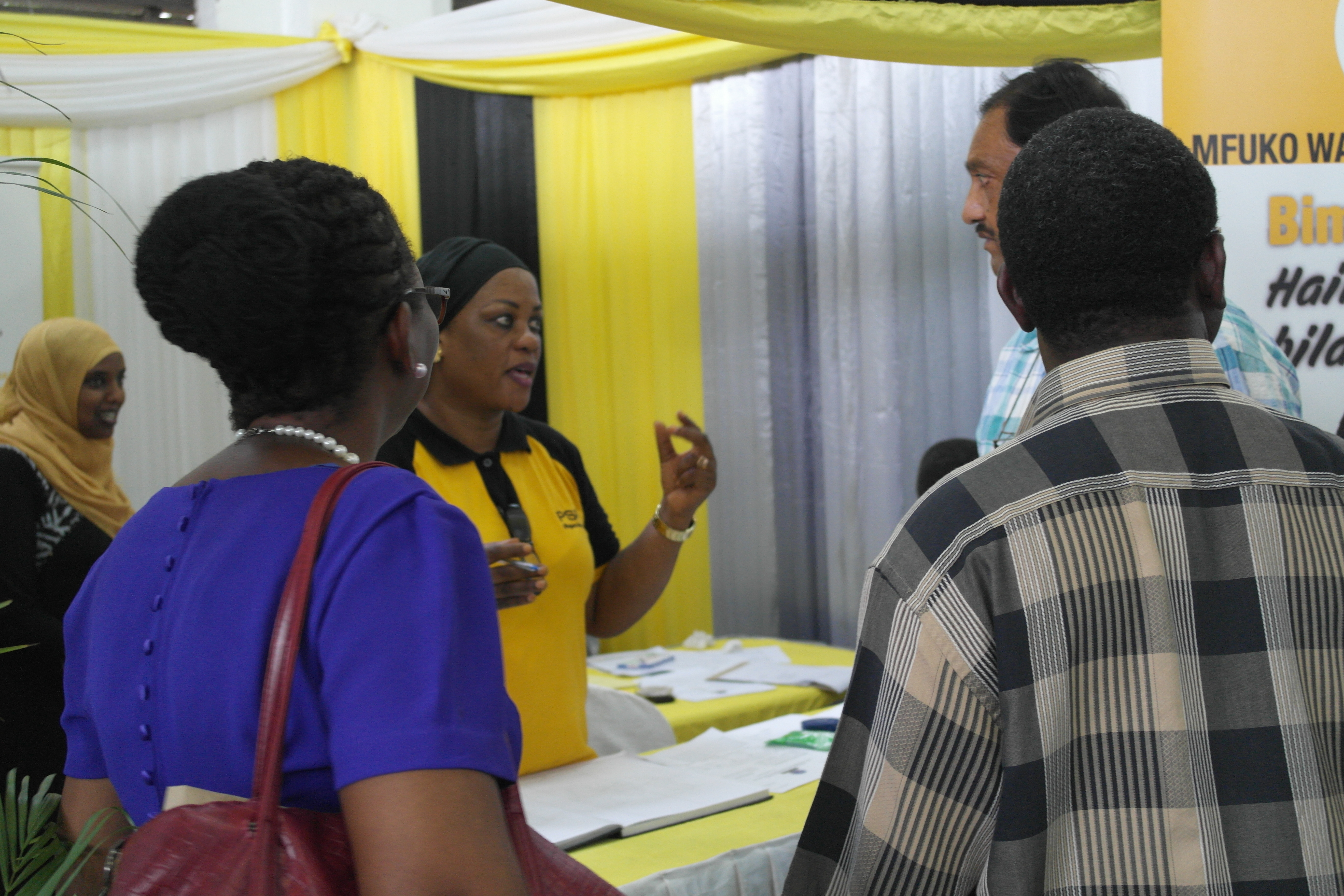 Women wearing Yellow and Black cloth, explaining to the customer the important of social security fund This is an image of "African people at work" from Tanzania